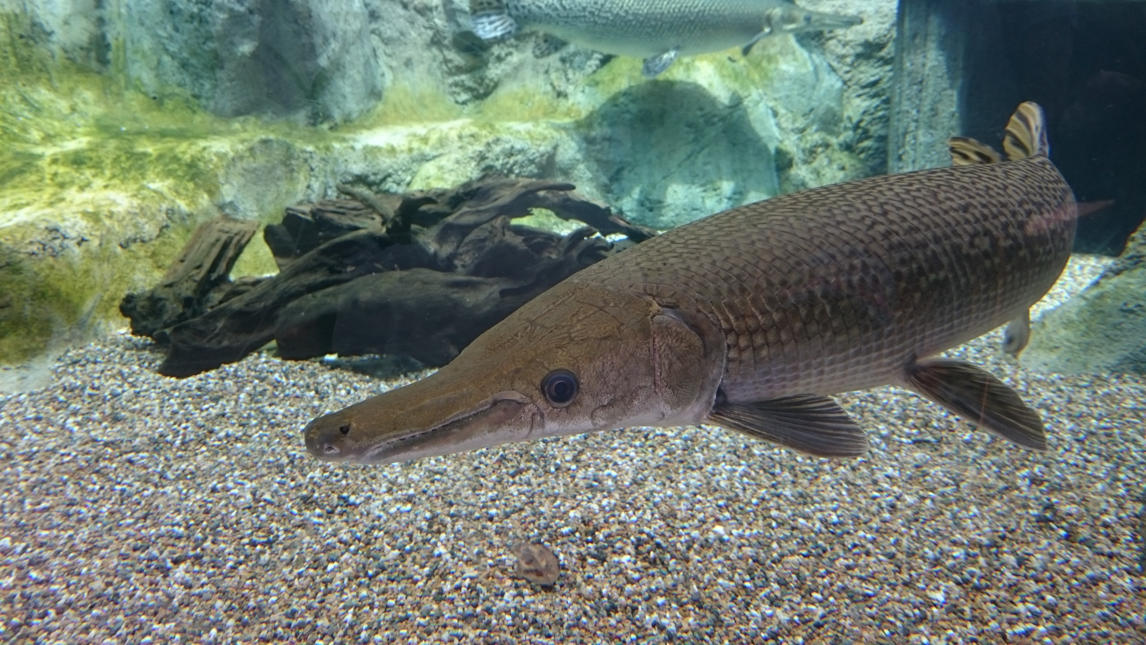 Alligator Gar. (Atractosteus spatula). Photo taken at the River Safari, Singapore.